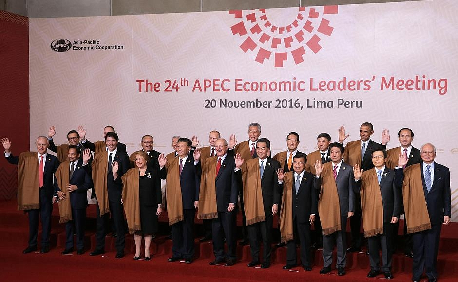 The heads of state and government of the 2016 Asia-Pacific Economic Cooperation forum.